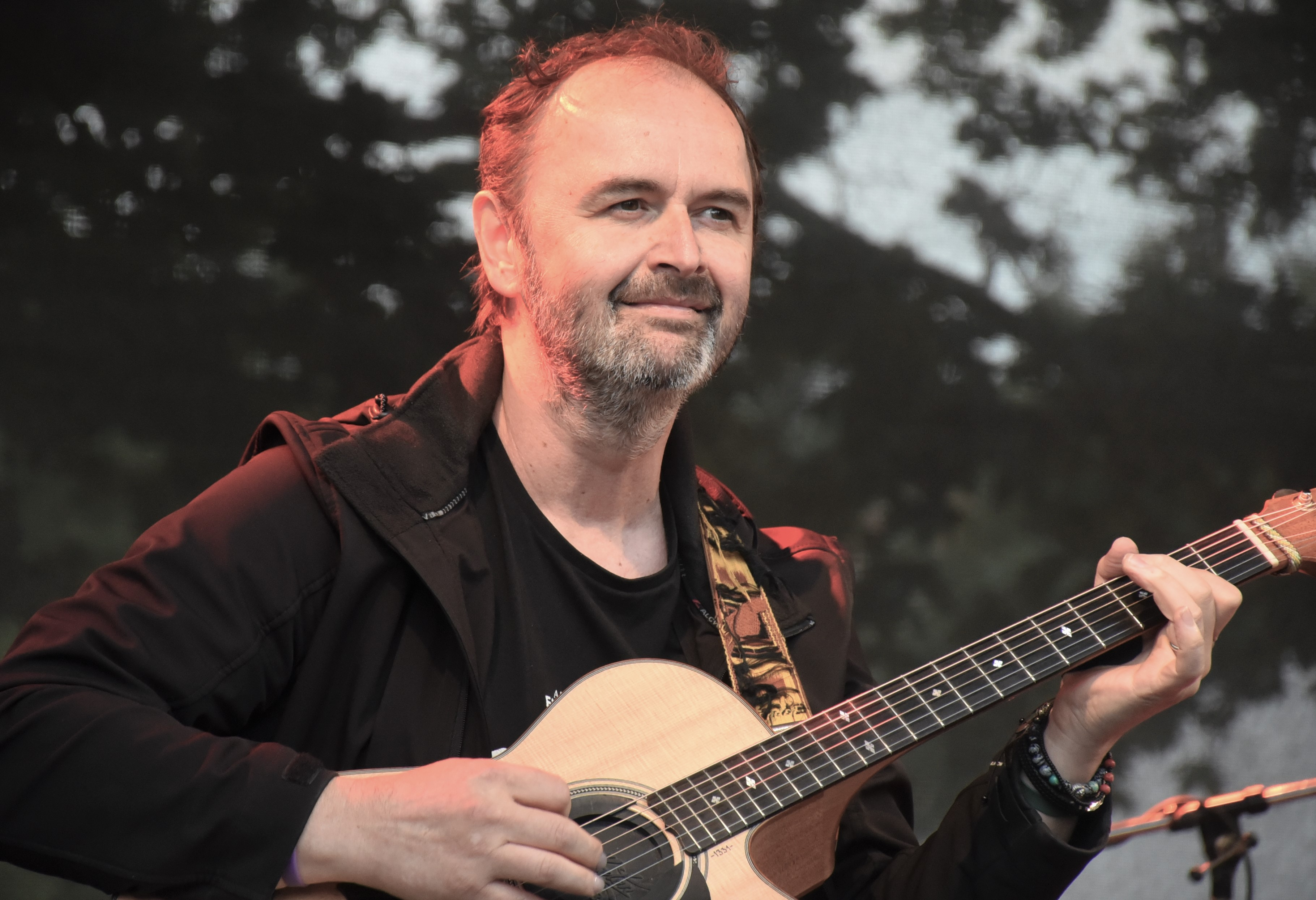 Norbi Kovács, Slovak musician